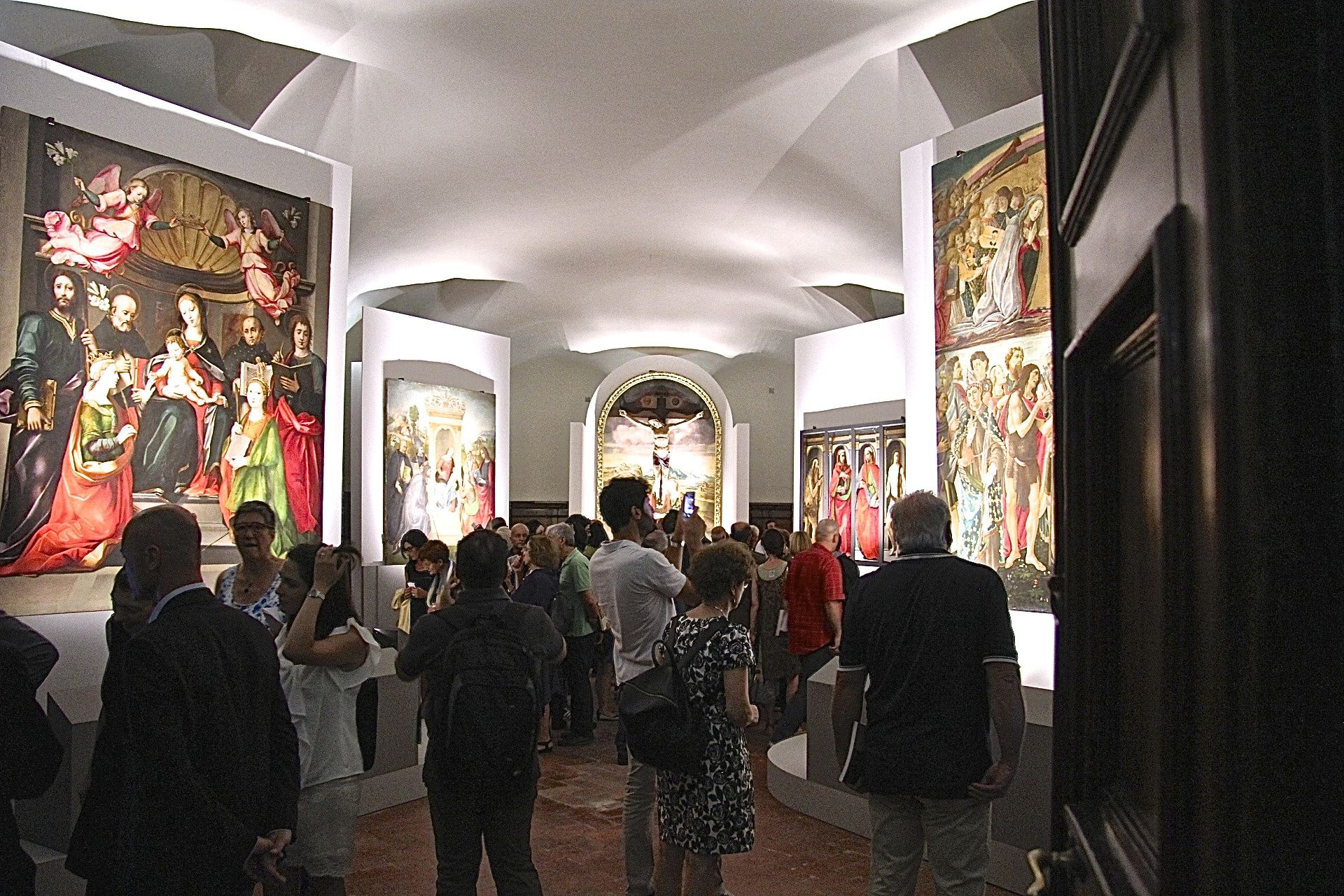 Inaugurazione delle sale espositive di Villa La Quiete (2016)